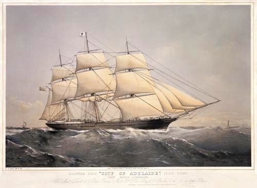 Clipper Ship, City of Adelaide, 1000 tons, David Bruce, Commander. Dedicated "To Messrs. Devitt & Moore Owners Messrs Wm Pile, Hay & Co. Builders & the Officers of the Ship this print is most respectfully dedicated by their obedient servant, Wm. Foster”.